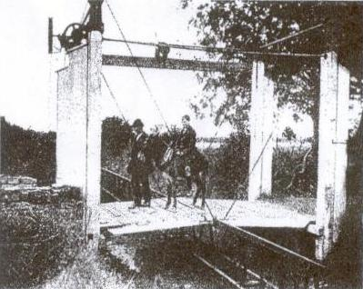 Lartigue Monorail: One of the extraordinary "Flying Gate" drawbridge crossings which characterised the Listowel & Ballybunion. There were 17 of these in all and an extemely rare piece of early cine footage survices, showing one being raised for the passage of a train.